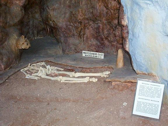 Reconstruction of a mausoleum with an Archanthropus skeleton, image from the Anthropological Museum, Petralona, Central Macedonia, Greece